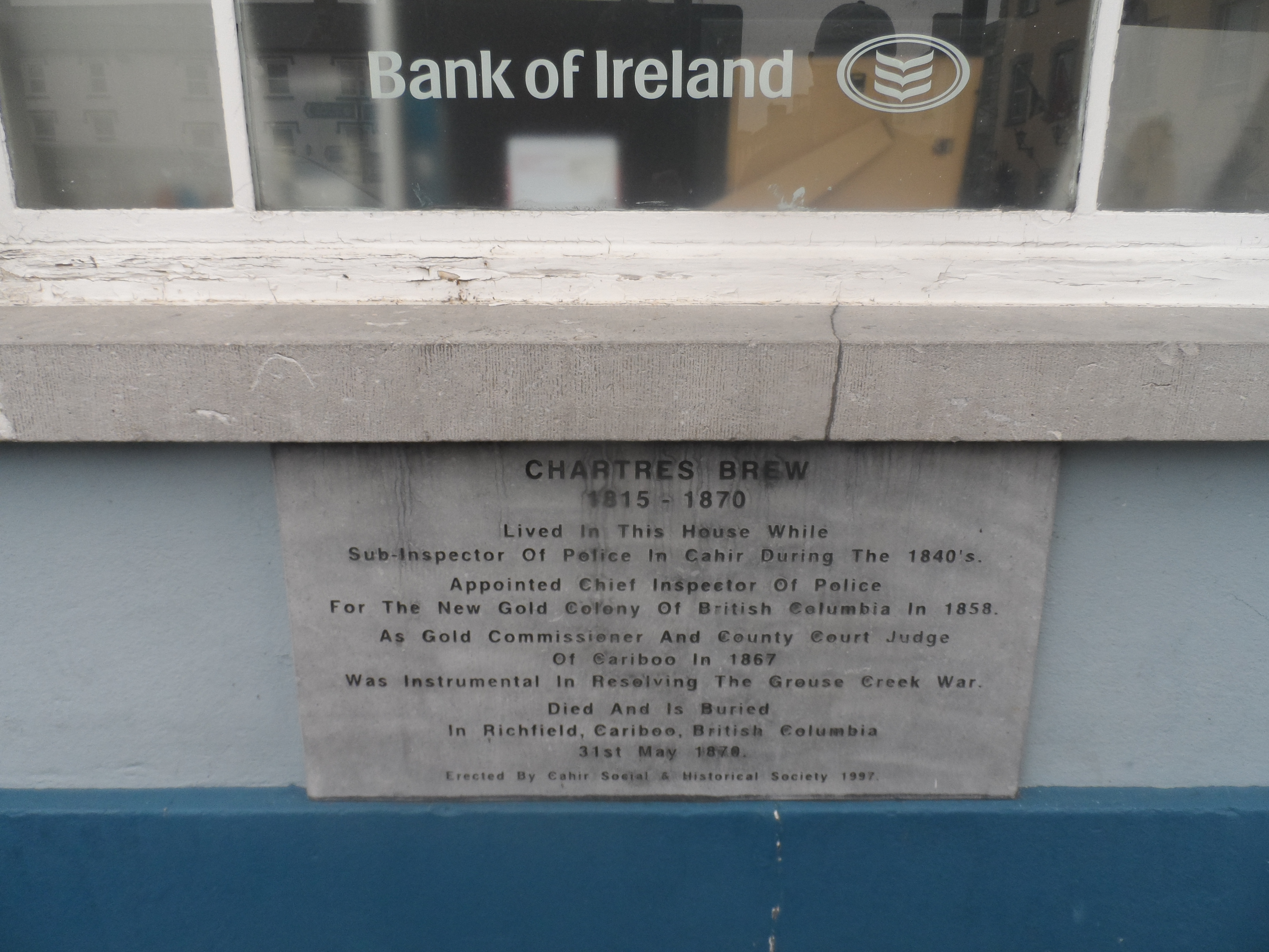 Chartres Grew